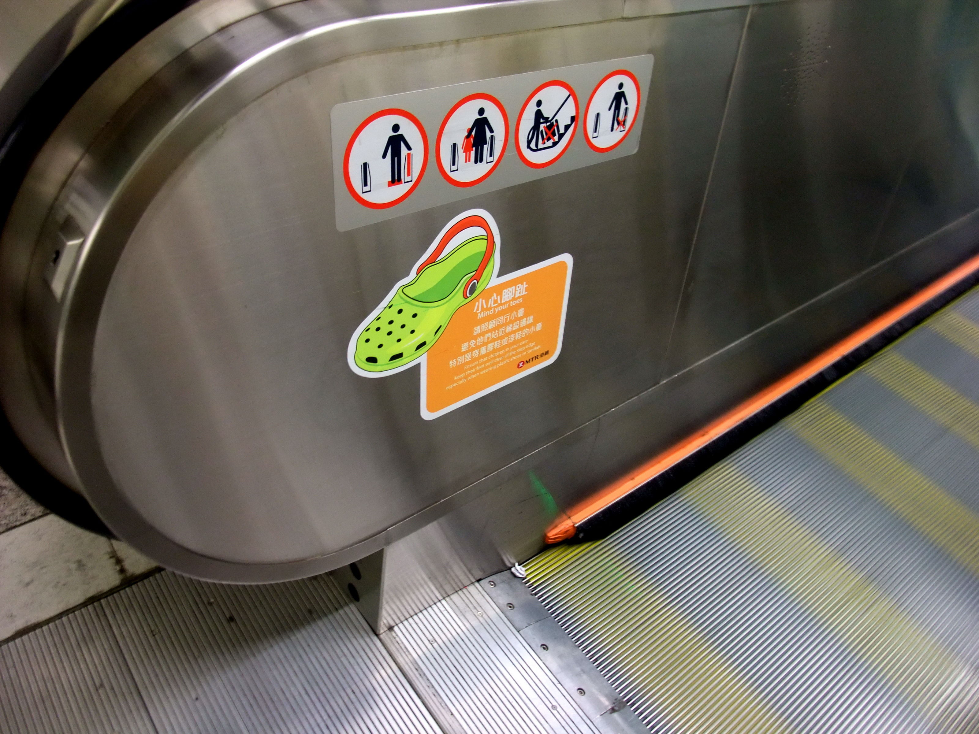 Mind your toes signage on an escalator in a MTR station, Hong Kong.